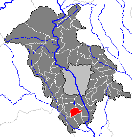 This map shows the area of the Gemeinde (municipality) Zettling in the Bezirk (district) Graz-Umgebung, Styria, Austria.